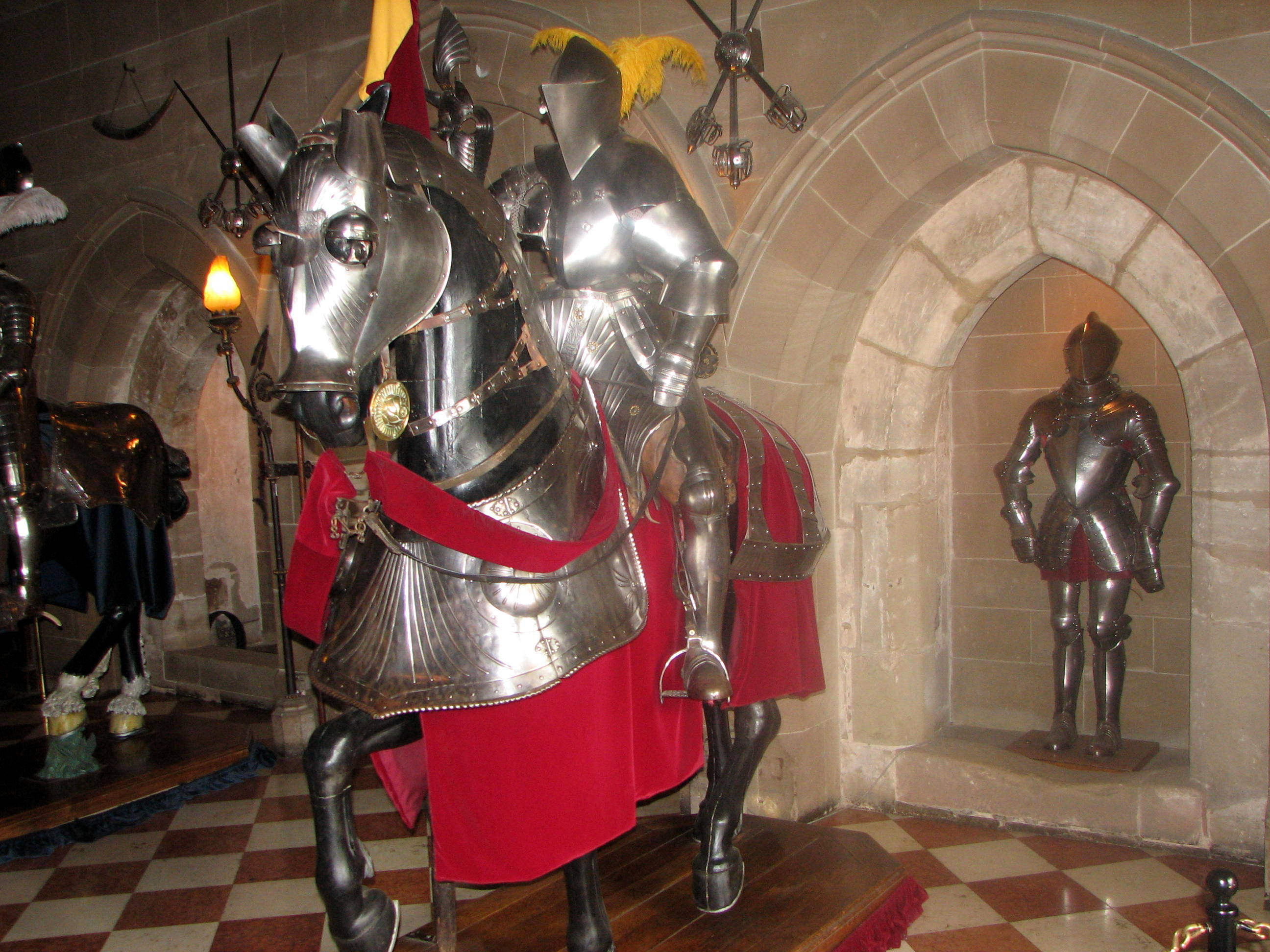 Knight and horse in armour, Warwick Castle, Warwick, England